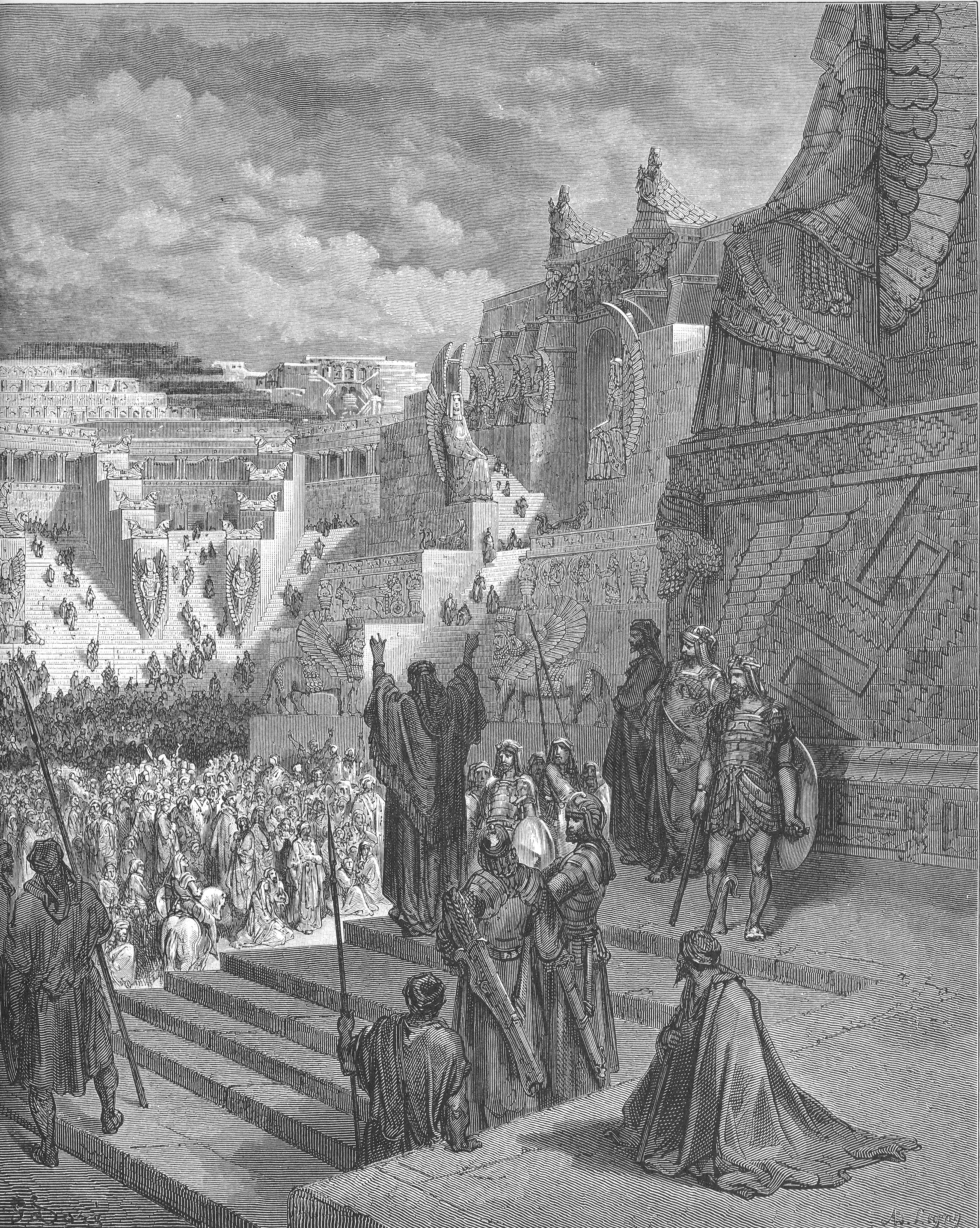 Artaxerxes Grants Freedom to the Jews (Ezr. 7:1-15)